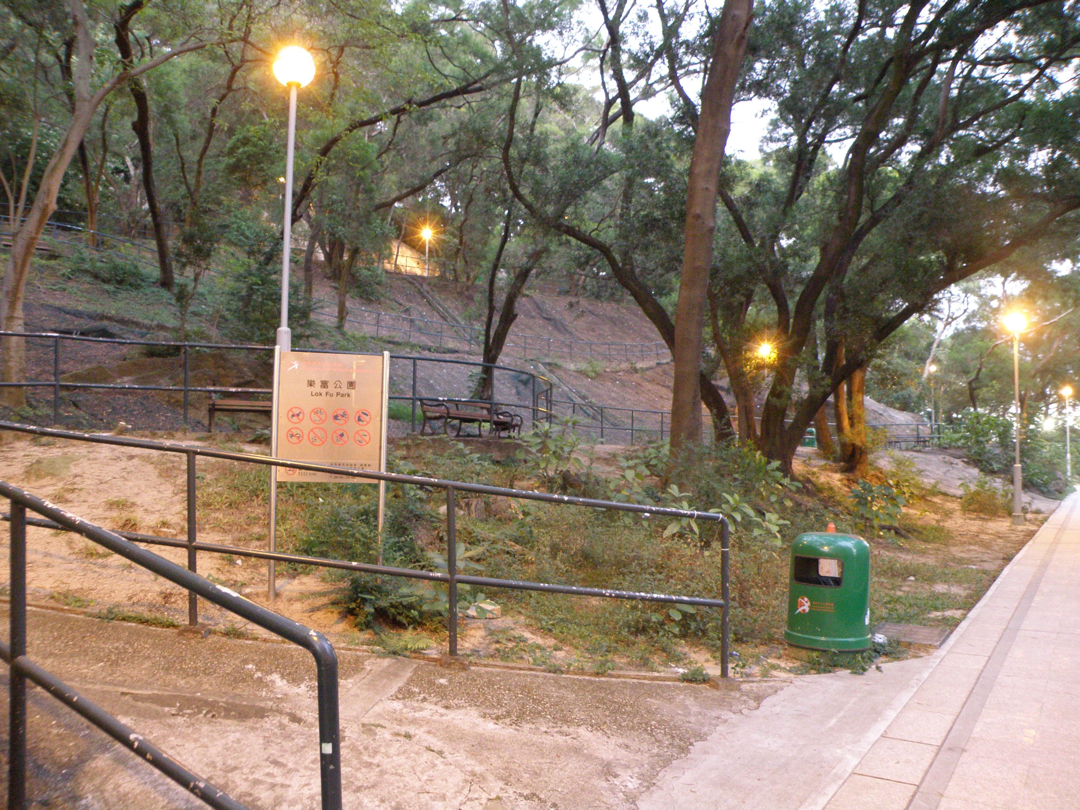 Lok Fu Park in Lok Fu, Hong Kong.